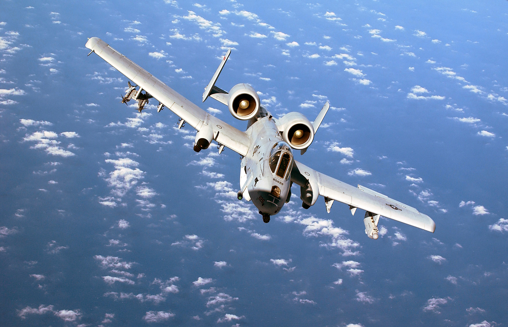 A-10 Thunderbolt II OVER THE MEDITERRANEAN SEA -- An A-10 Thunderbolt II from the 104th Fighter Wing, Barnes Municipal Airport, Westfield Mass., Massachusetts Air National Guard, banks while flying accross the Mediterranean Sea enroute to a forward operating base.